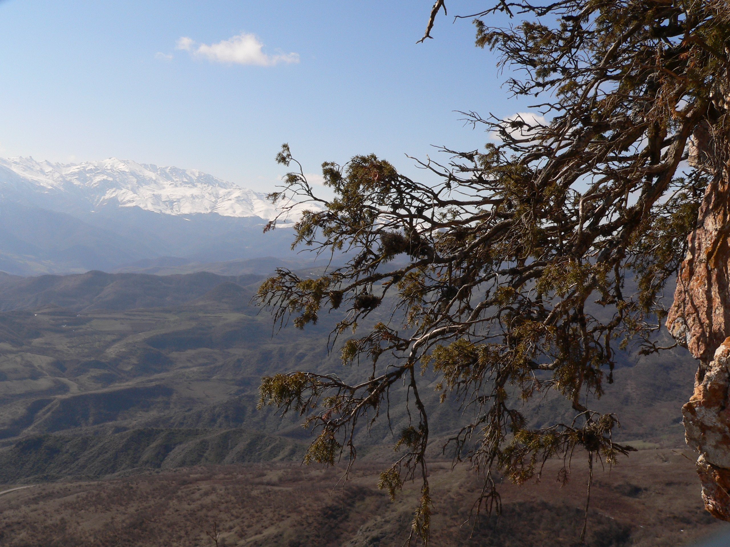 Landscape. Syunik.